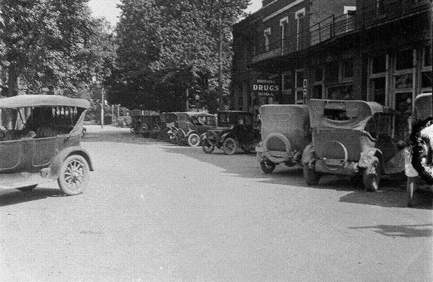 Downtown Dayton, Tennessee, June 1925.